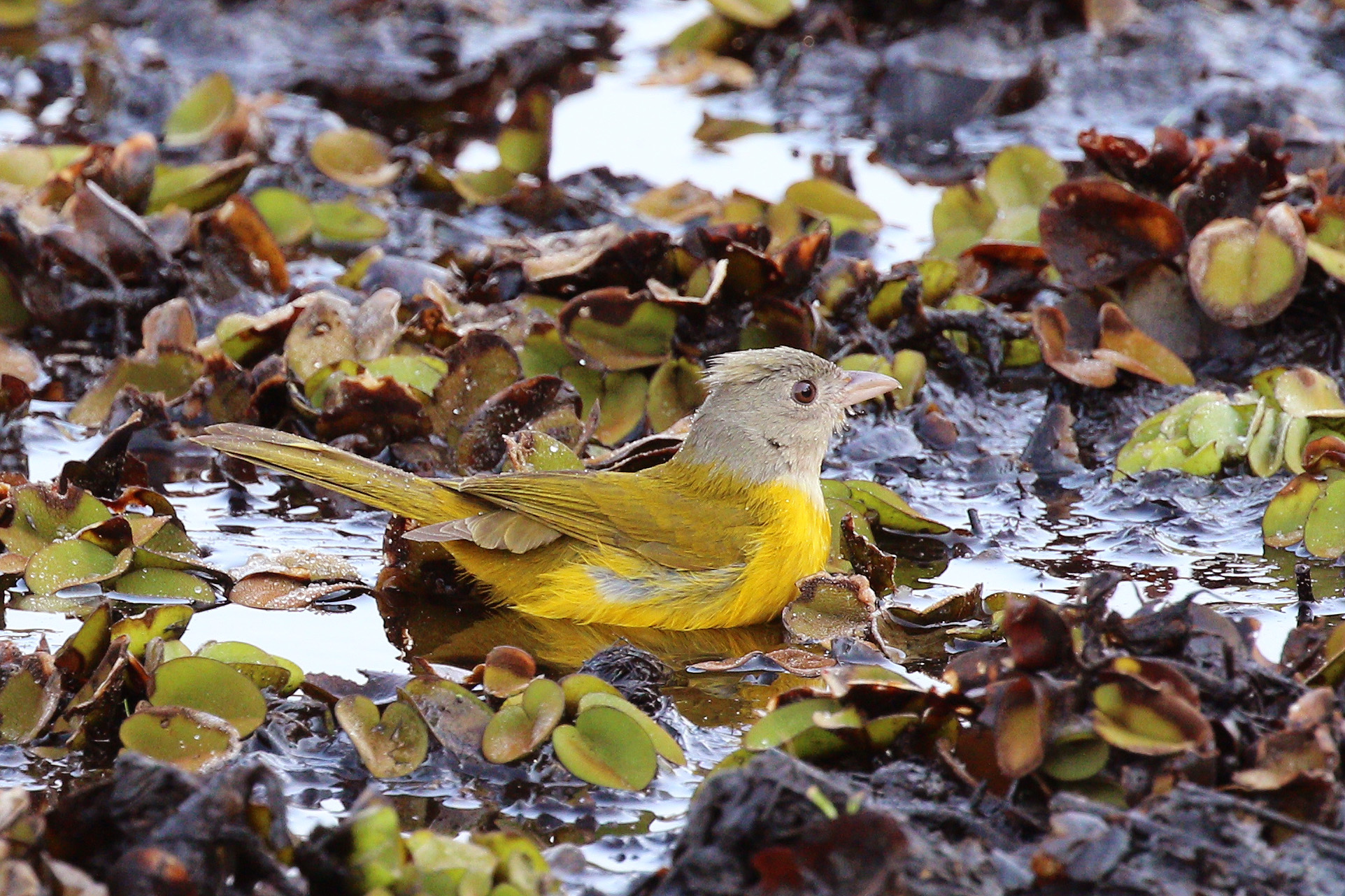 Grey-headed tanager (Eucometis penicillata), Pantanal, Brazil